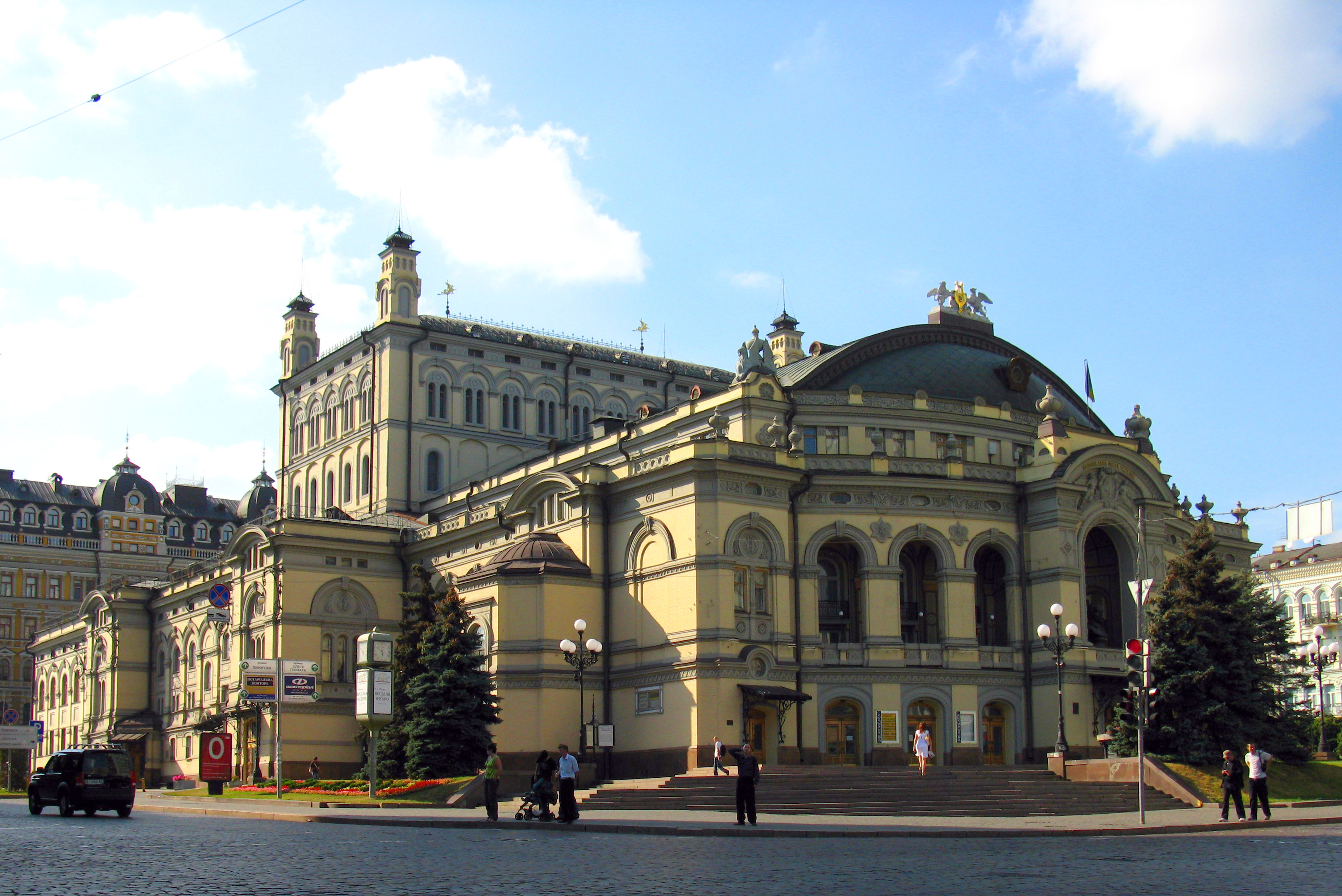 The Schevchenko National Opera House of Ukraine in Kiev Camera: Canon PowerShot A650 IS License on Flickr (2010-12-30): CC-BY-SA-2.0 Flickr tags: Ukraine, Україна, Украи́на, Kyiv, Kiev, Київ, Ки́ев, National Opera of Ukraine